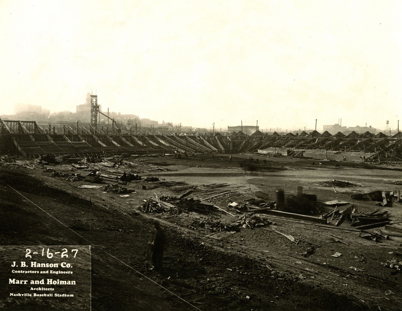 Sulphur Dell, a minor league baseball park in Nashville, Tennessee, shown in 1927 when the ballpark was reoriented so that home plate would face northeast